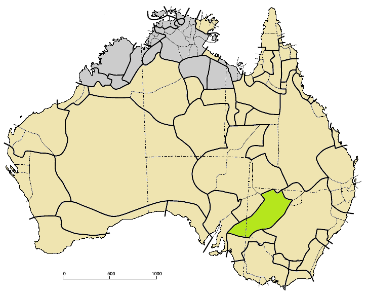 The Darling language (green) among other Pama–Nyungan (tan)